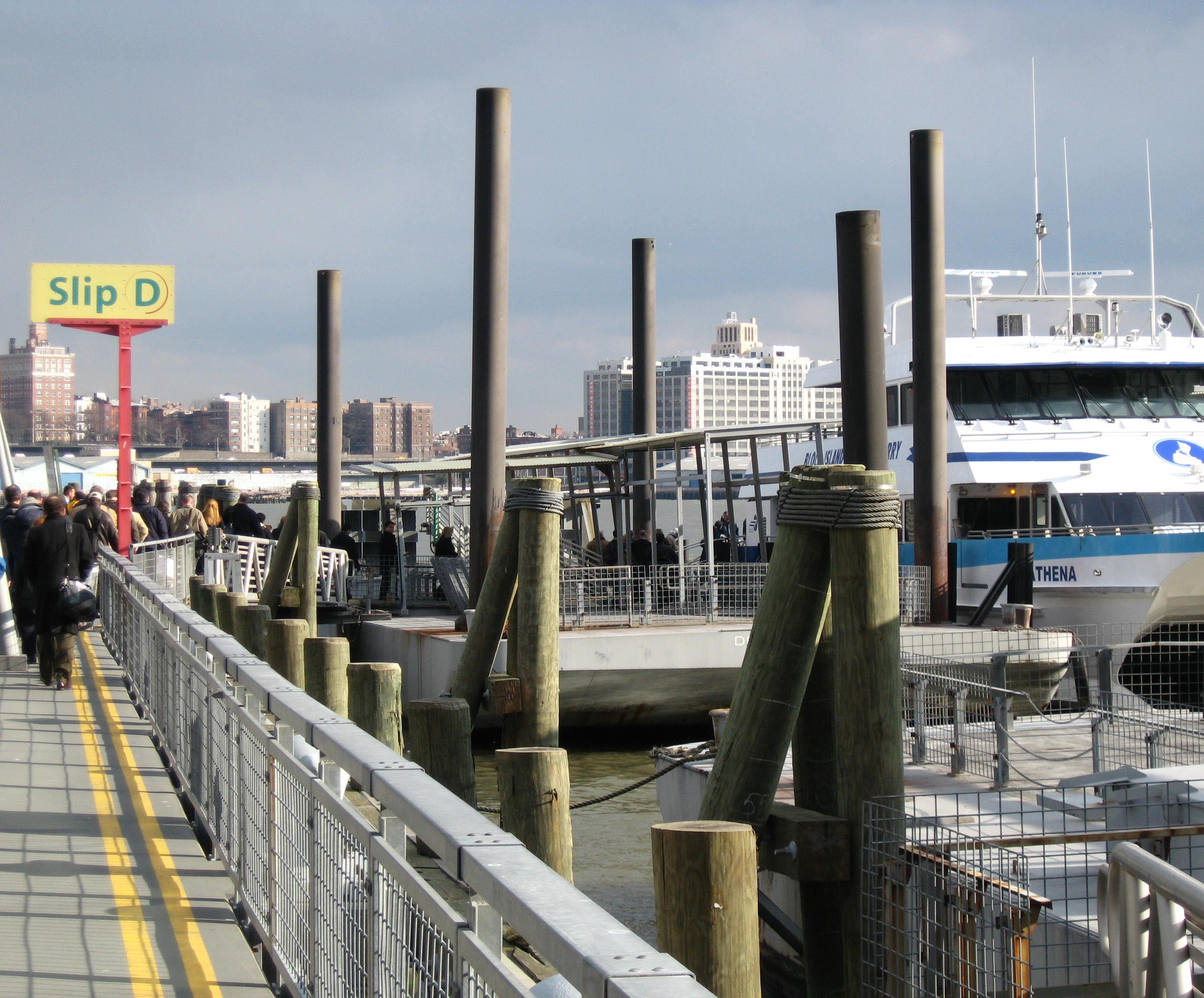 Commuters at Pier 11 at Wall Street board a Block Island boat temporarily serving a SeaStreak route to New Jersey on a late winter afternoon